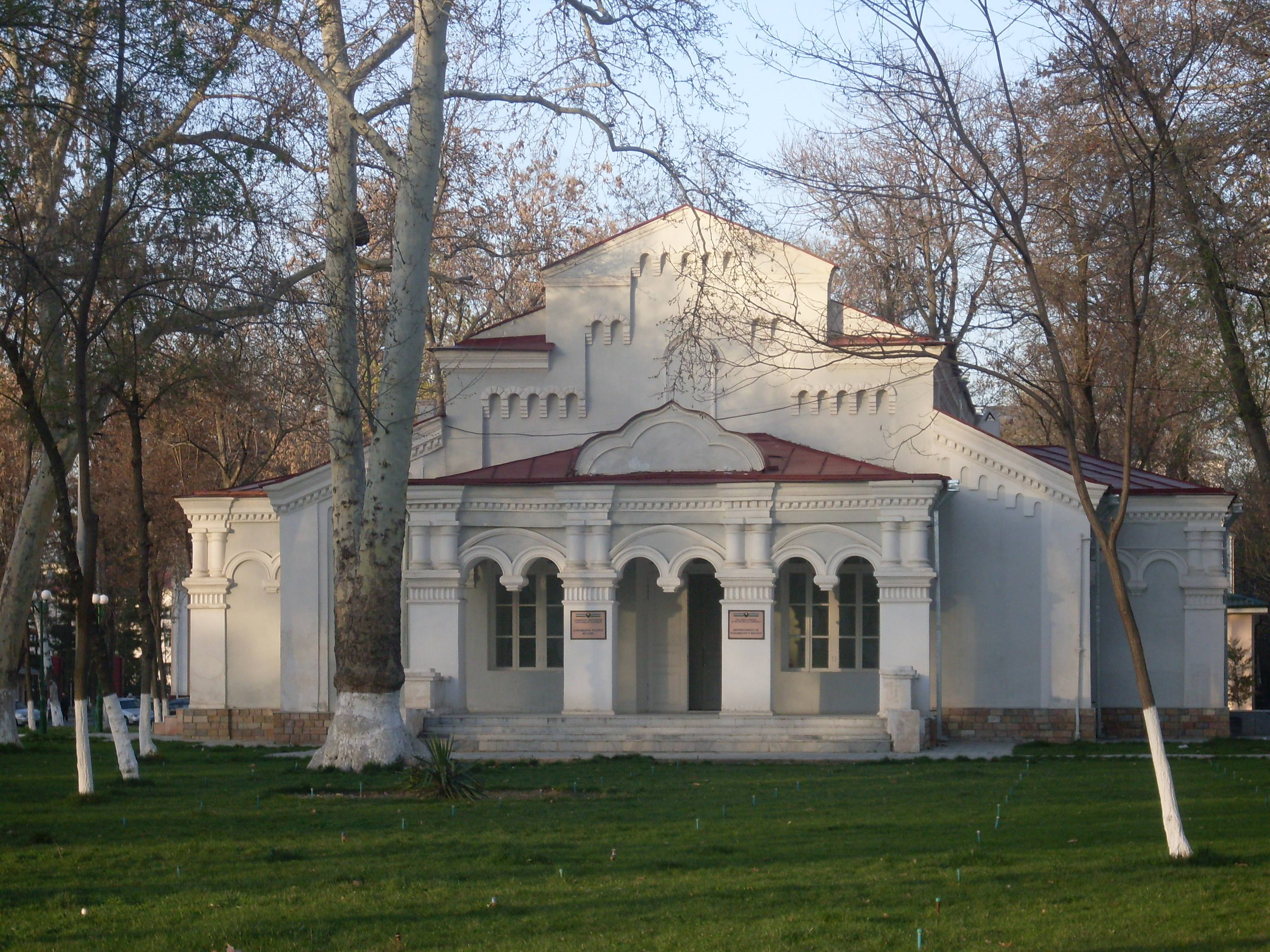 Church of St. George Victorious in Samarkand